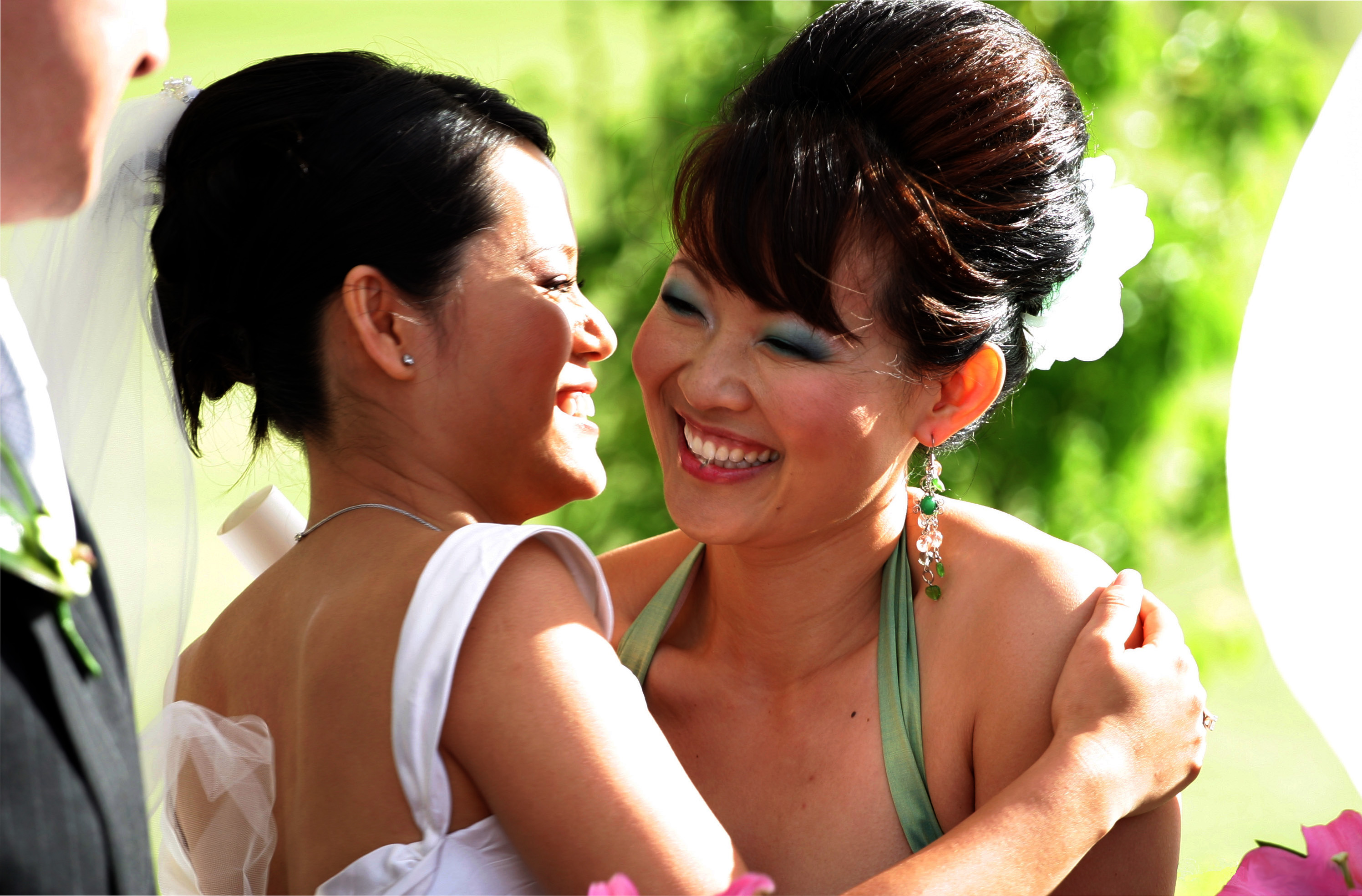 The bride (in white) embraces her bridesmaid.